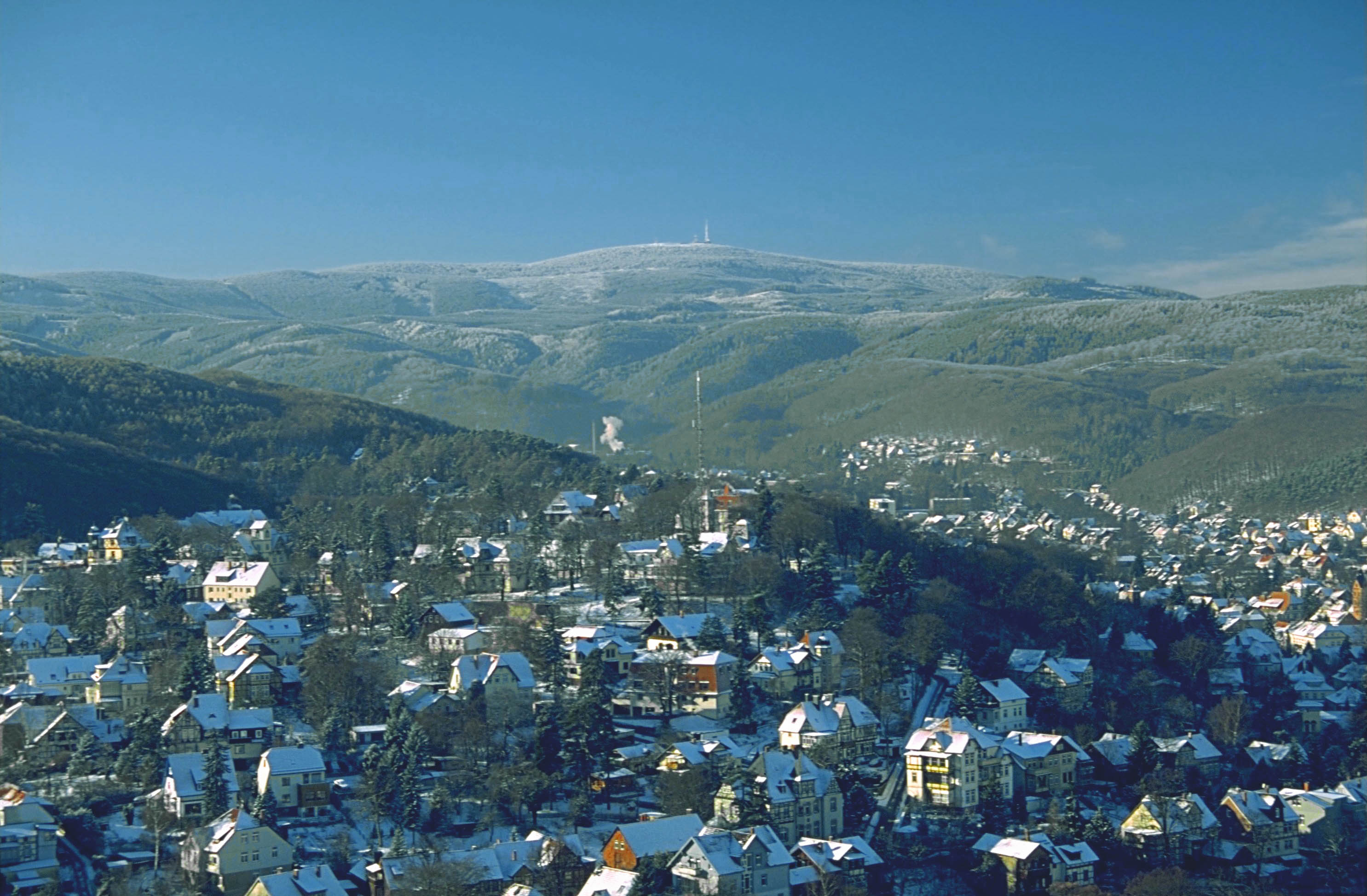 View from Castle of Wernigerode over the city to mount Brocken in Winter Photo was taken using the following technique: Film: Fuji Velvia Lens: Minolta 4/35-70 Filter: none Body: Minolta Dynax 7 Support: none Image with Information in English Bild mit Informationen auf Deutsch